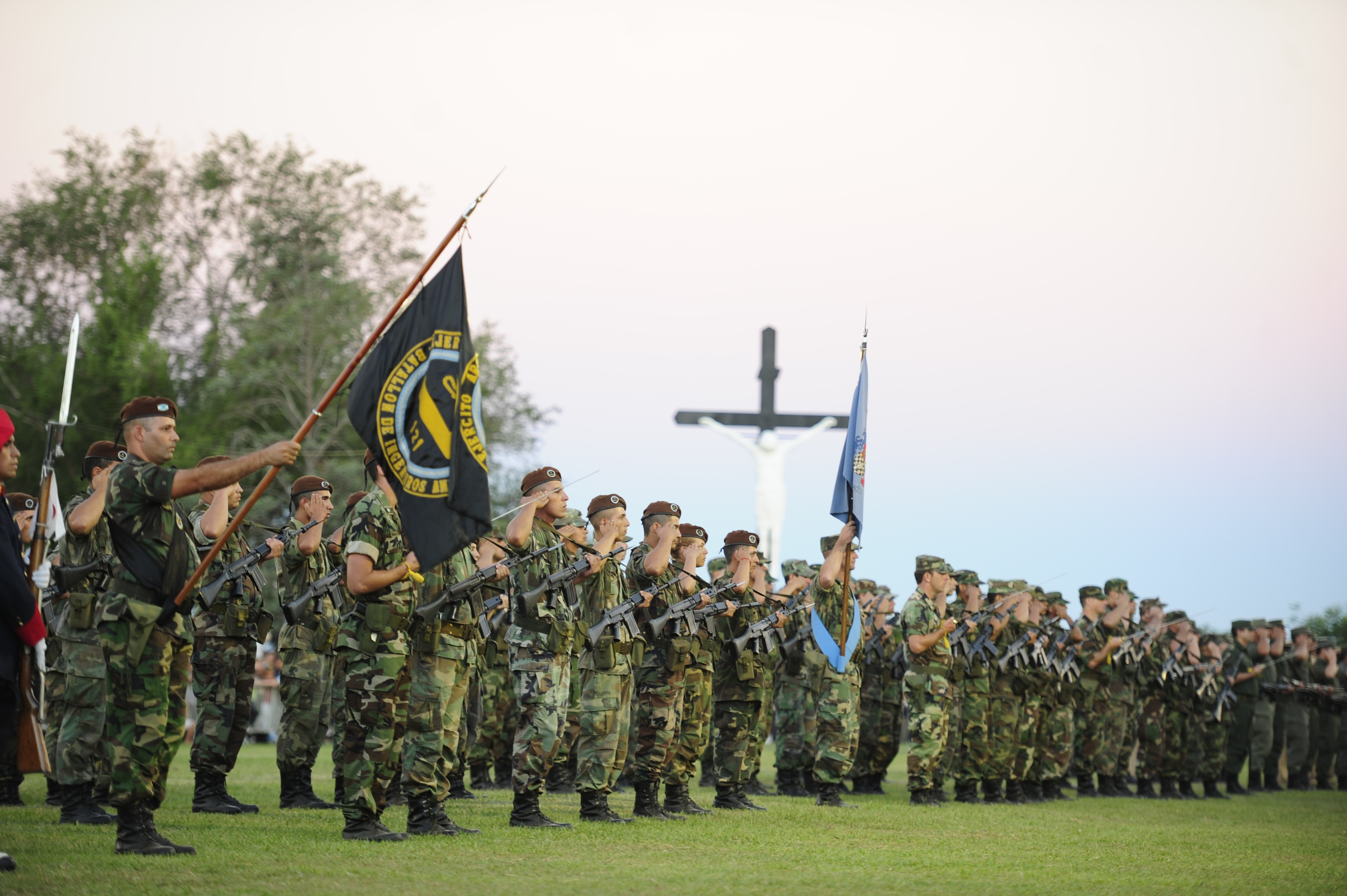 Amphibious Engineers of the Argentine Army